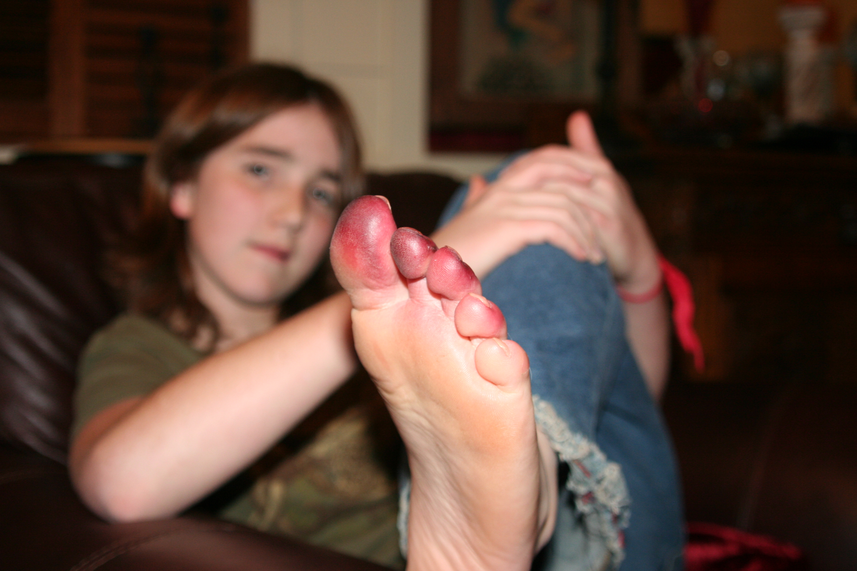 The effects of millipede toxin on the skin. The child put on her shoe and crushed the millipede which had crawled into her shoe the night before.